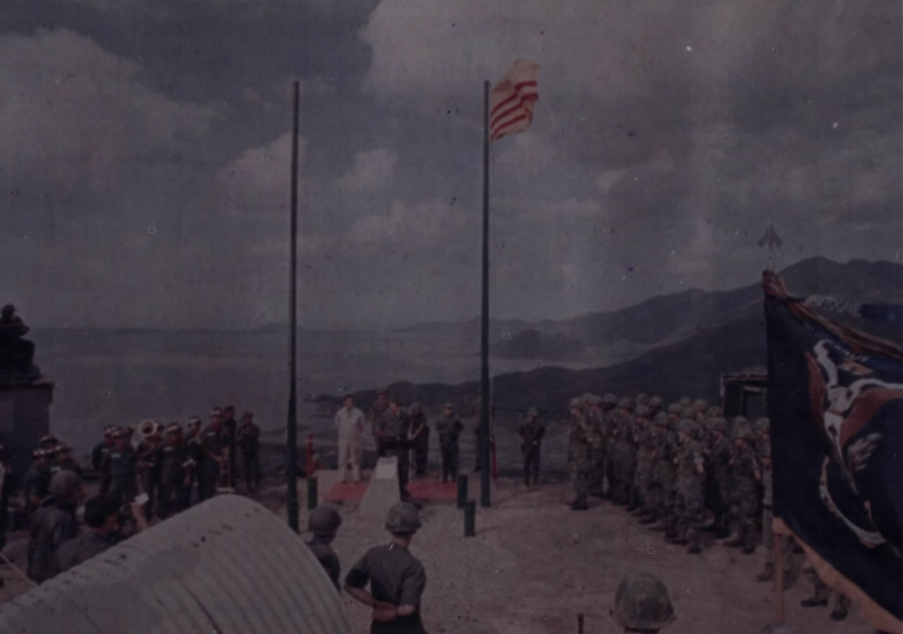 Major General Thomas M. Tarpley, Commanding General, 101st Airborne Division, addresses the assembled troops during a ceremony in which Fire Support Base Tomahawk is turned over to the ARVN 5th Regional Forces by the 1st Battalion, 501st Infantry, 101st Airborne Division.